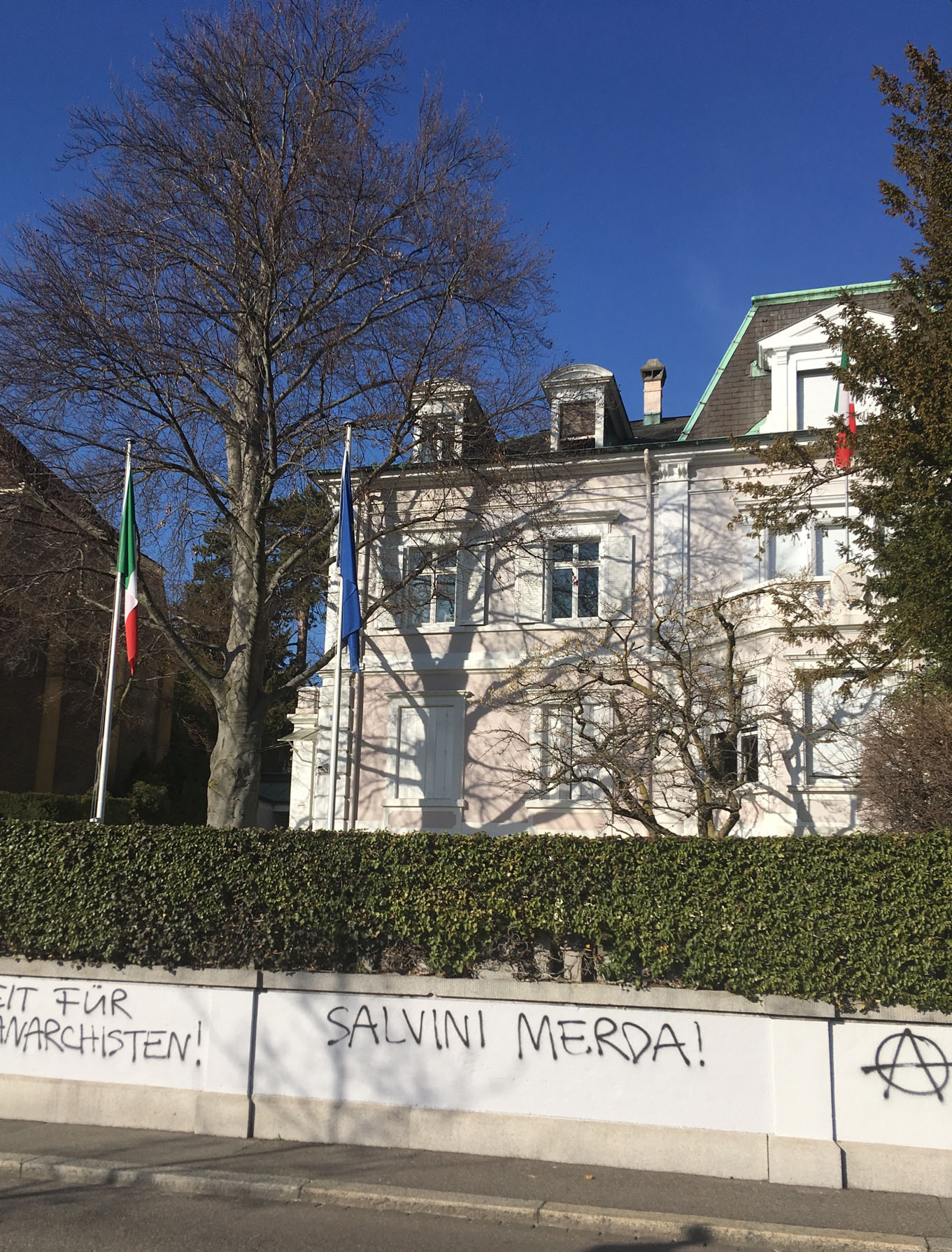 The Consulate General of Italy in Basel located at Schaffhauserrheinweg 5, 4058 Basel, Switzerland